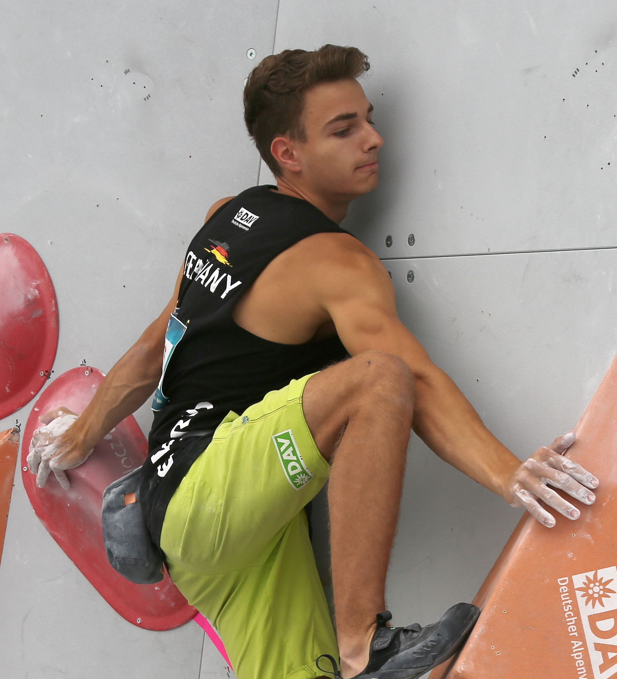 Boulder Worldcup 2018, Final Event in Munich 2018-08-18, Semi-Finals.